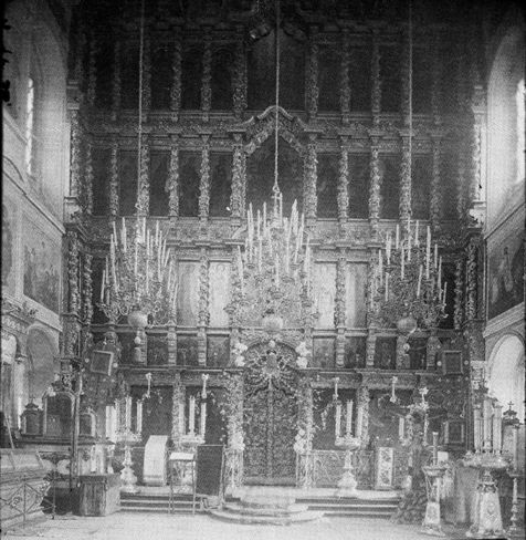 The Resurrection Church in Kadashi (Iconostasis)